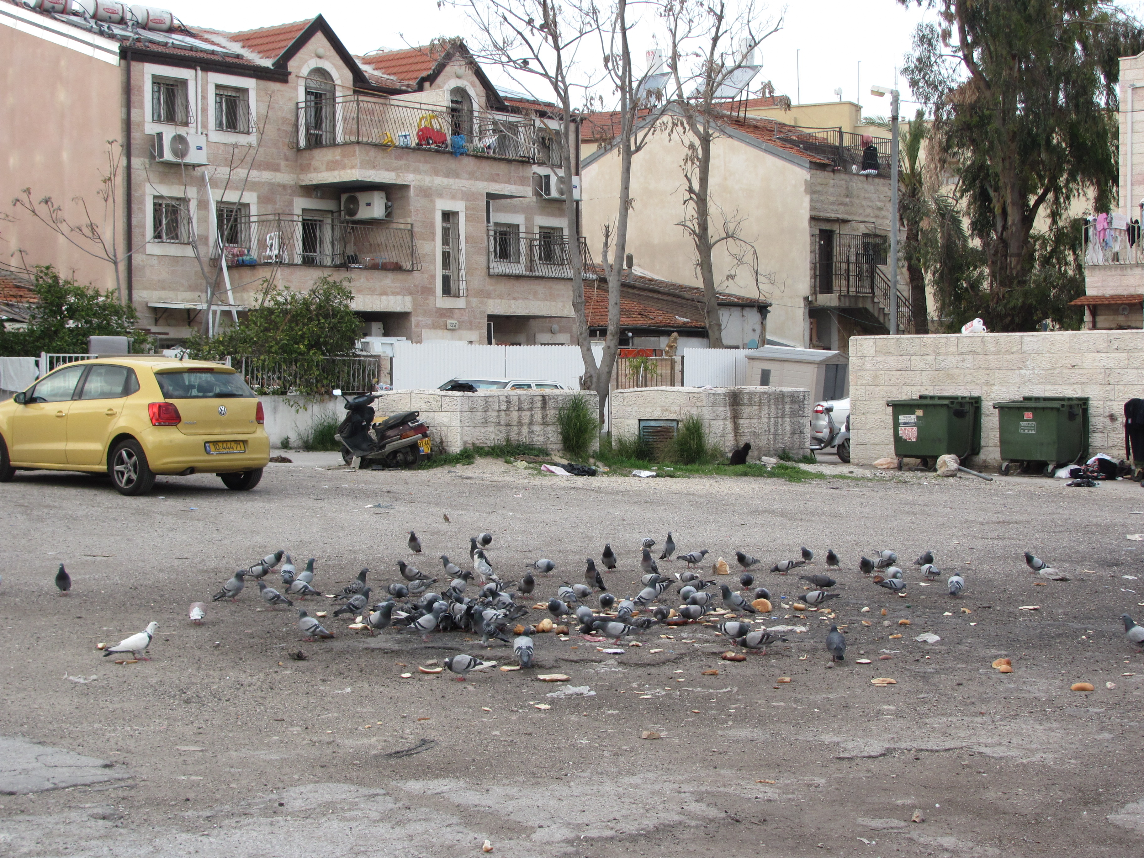 Residents leave bread for the birds in the former courtyard of the Sha'arei Yerushalayim neighborhood, now a parking lot